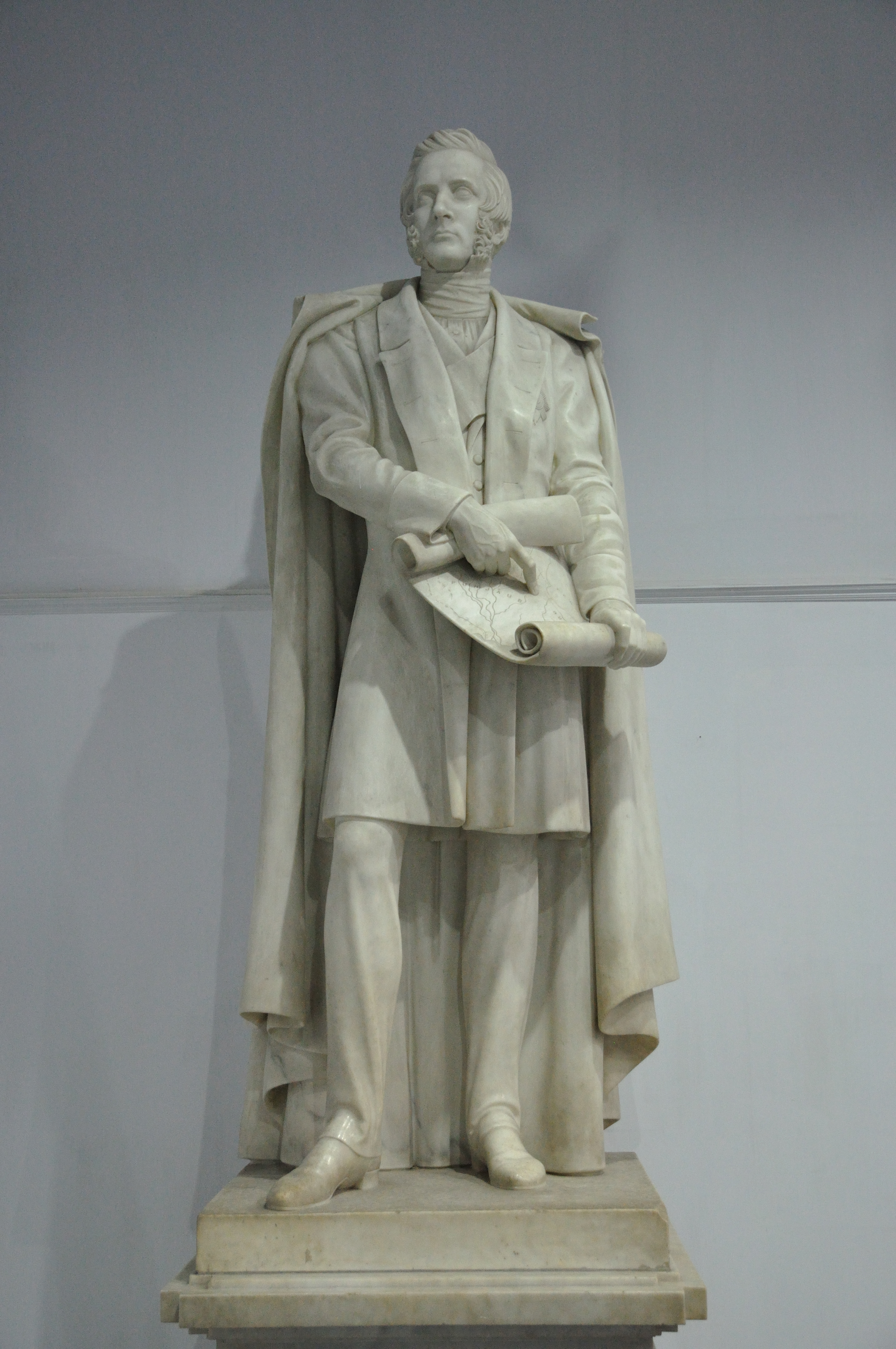 The marble statue of Marquess Dalhousie, Government General of India, from 1848 to 1856, at the Victoria Memorial Hall, kolkata.